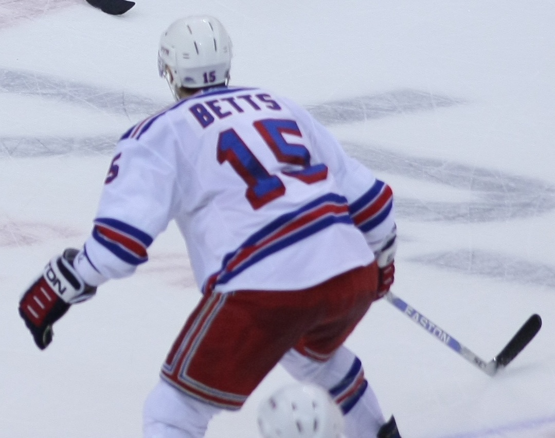 Alexander Semin (left) of the Washington Capitals handles the puck during a 2009 playoff game against the New York Rangers in Washington